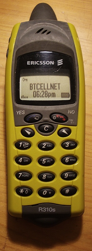 Ericsson R310s waterproof & dustproof GSM mobile phone, in yellow.